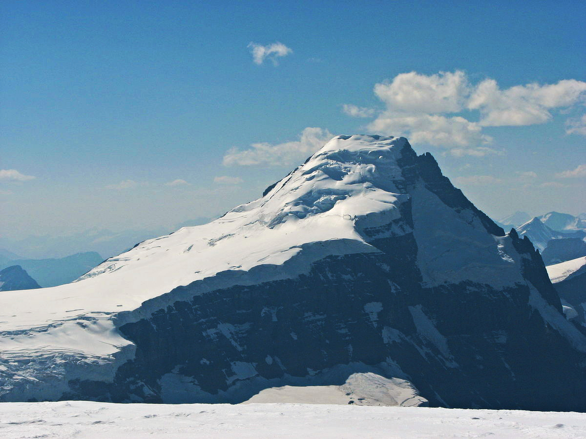 Mount Columbia (Alberta/BC) taken from the summit of Snow Dome. Normal ascent route follows snow-covered face.